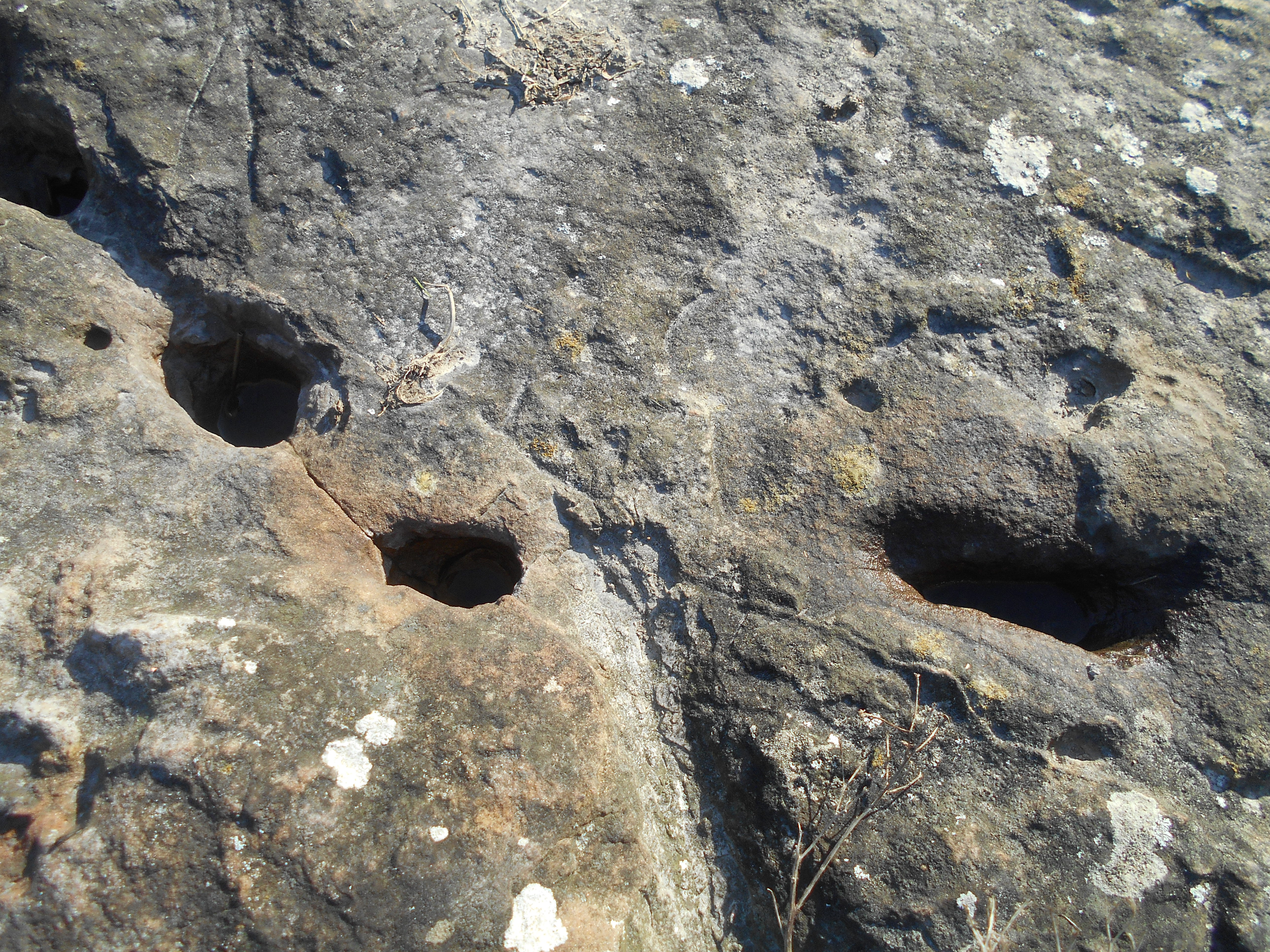 The Coffin Stone, in a vineyard near Blue Bell Hill in Kent, England. Sarsten stones possibly moved from a former neolithic burial chamber nearby.